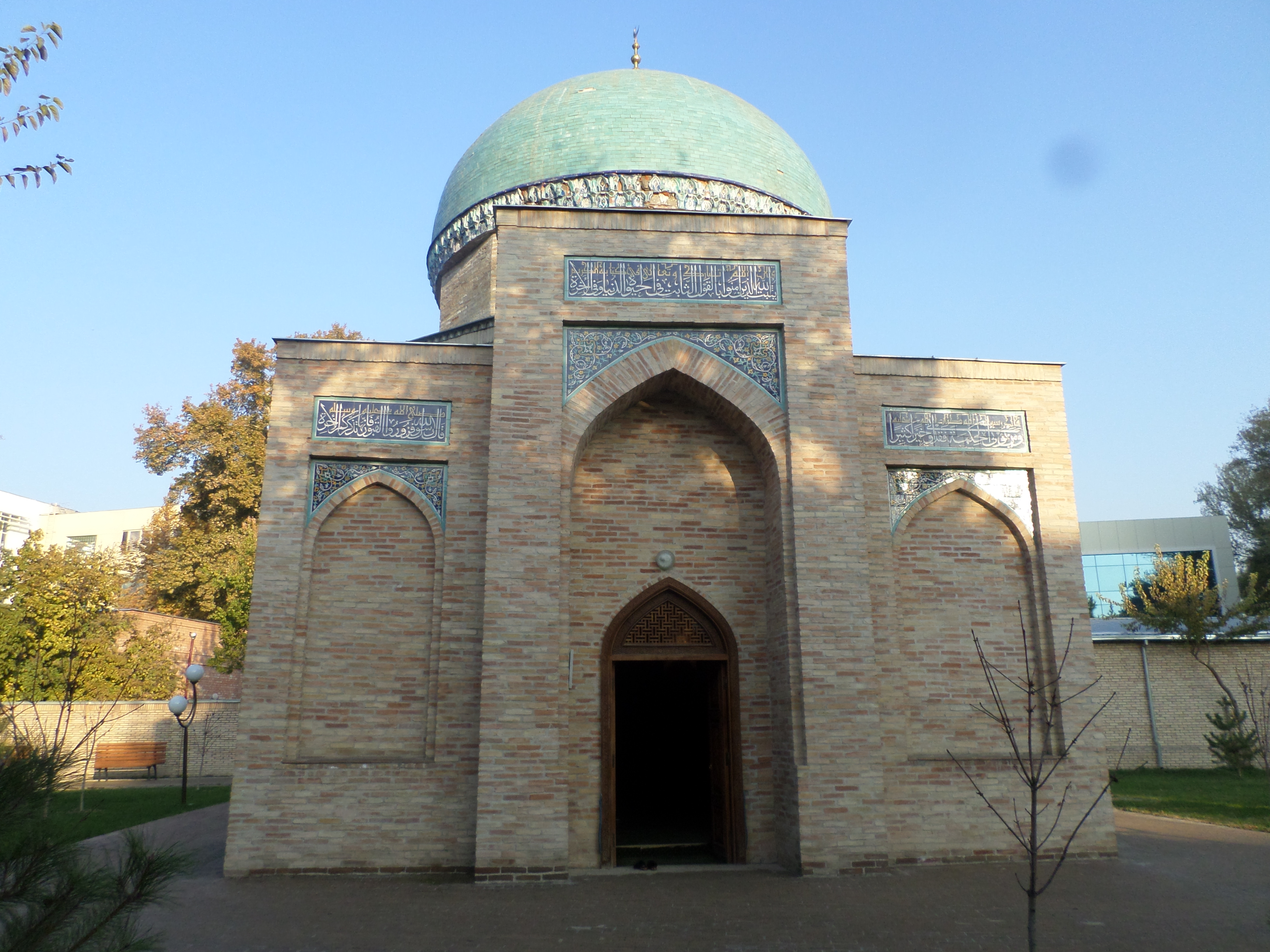 Mausoleum Hovendi